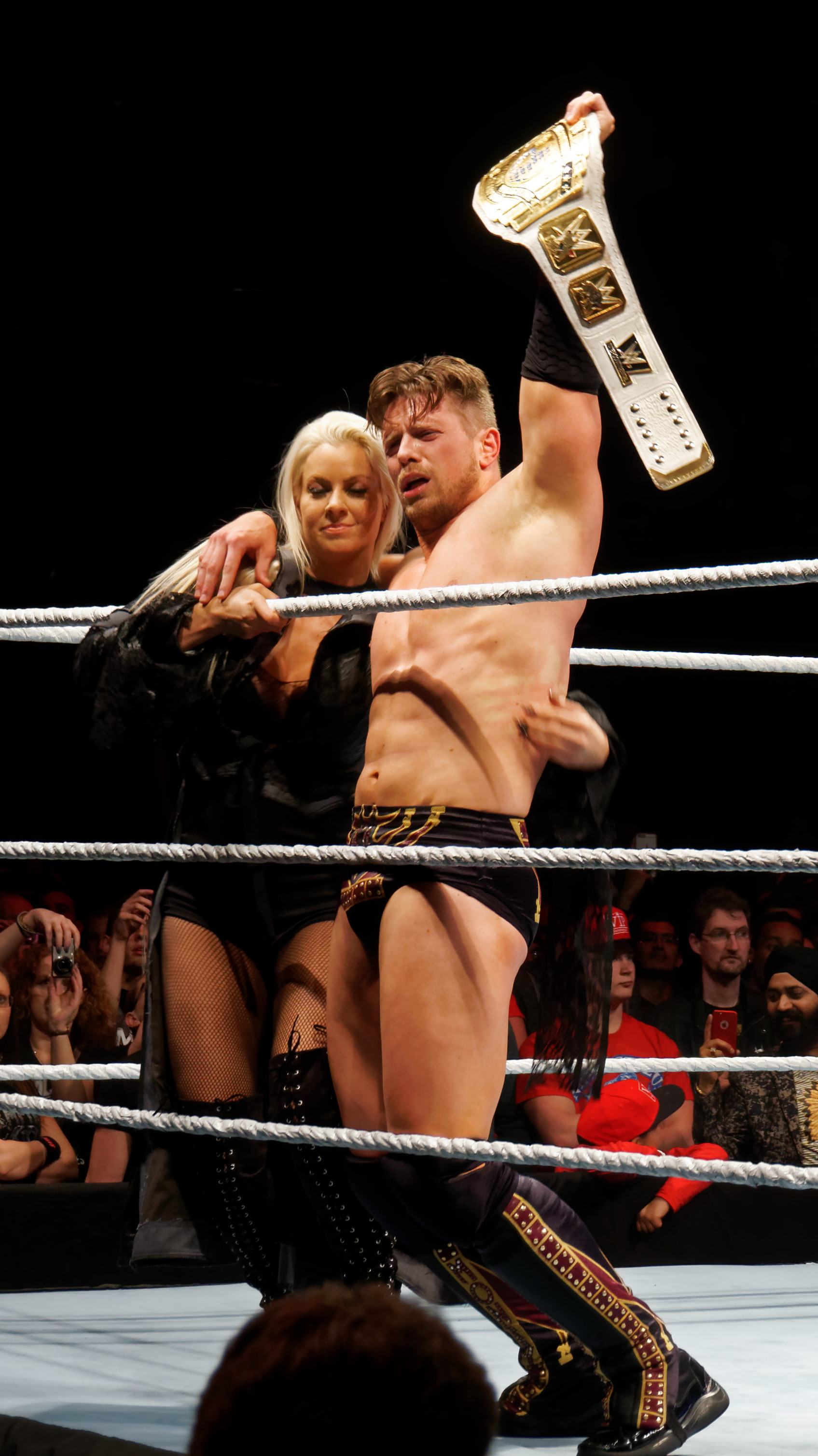 WWE Live WrestleMania Revenge The Miz (c) (With Maryse) def. Dolph Ziggler For : WWE Intercontinental Championship